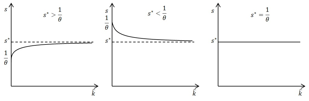 Ramsey–Cass–Koopmans model, savings rate dynamics